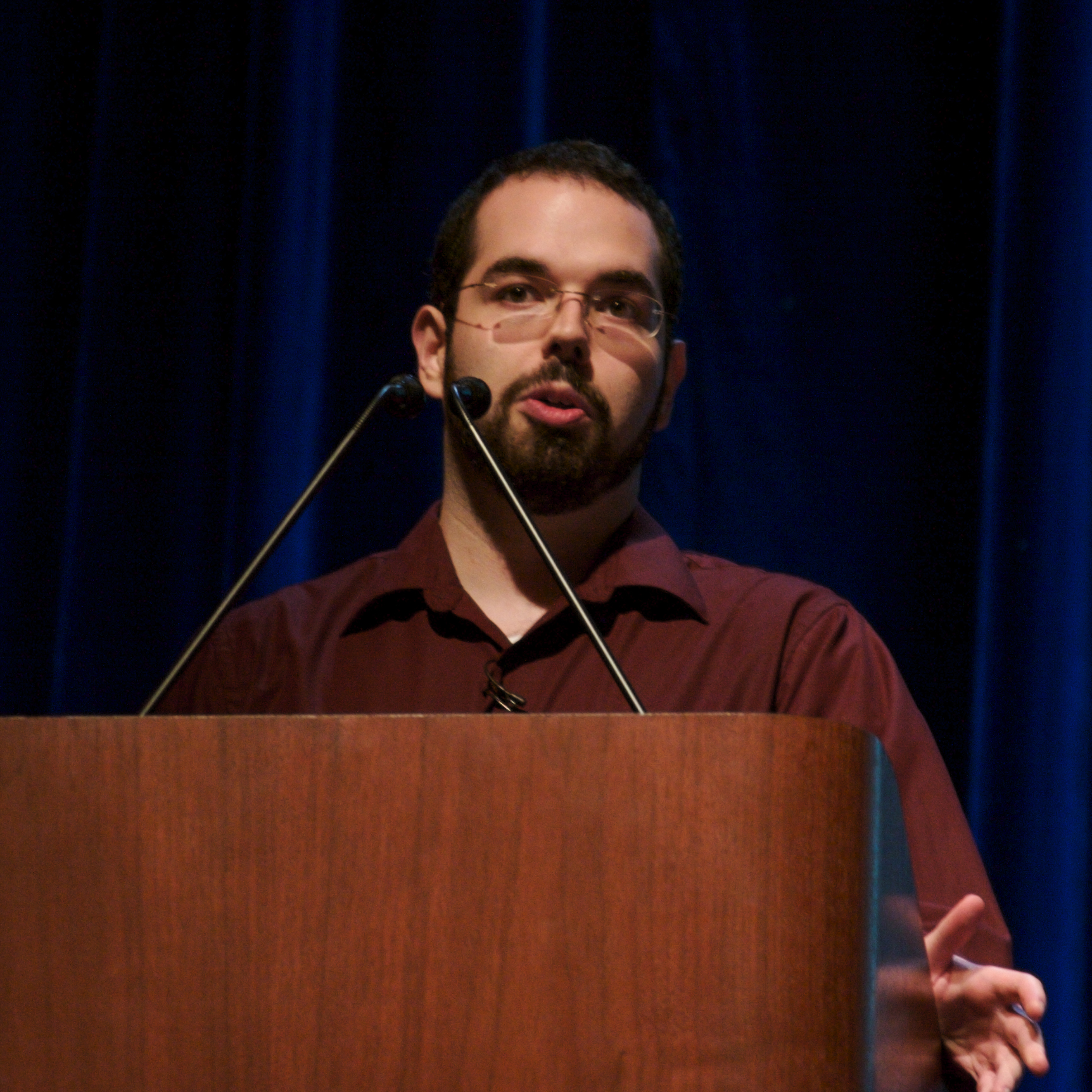 Eliezer Yudkowsky, an American researcher into artificial intelligence.